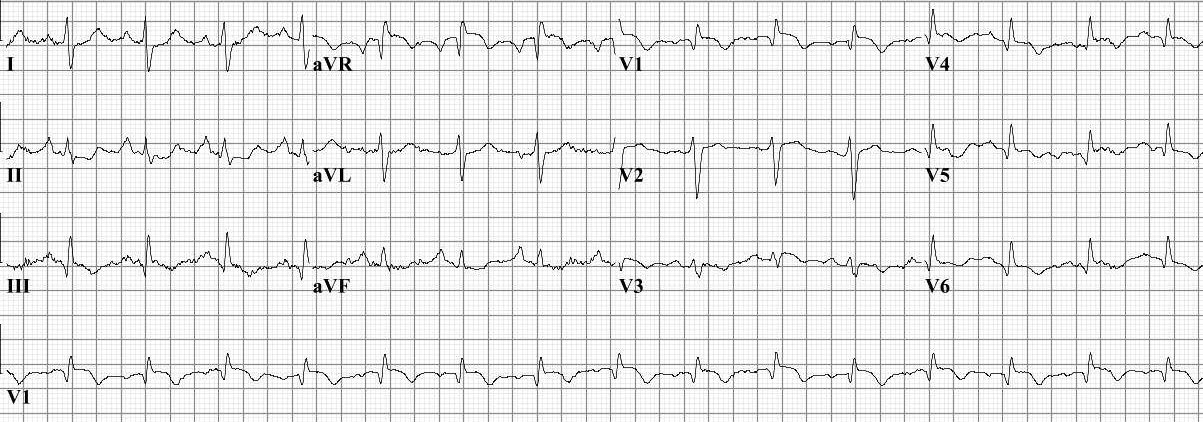 ECG of a person with pulmonary embolism. Note the deep S in I and the Q and flipped T in III. Heart rate is around 100